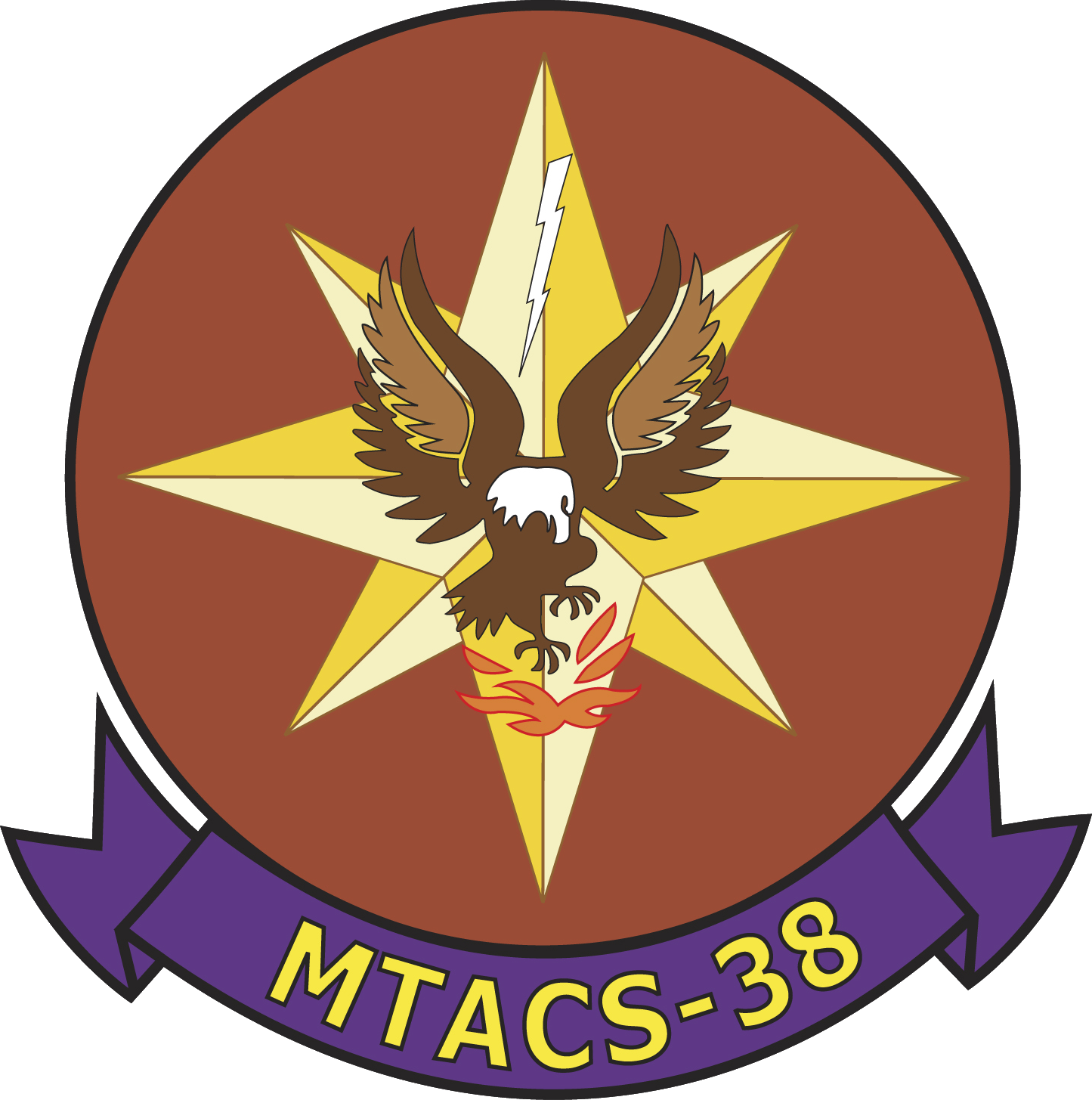 Marine Tactical Air Controls Squadron 38 insignia